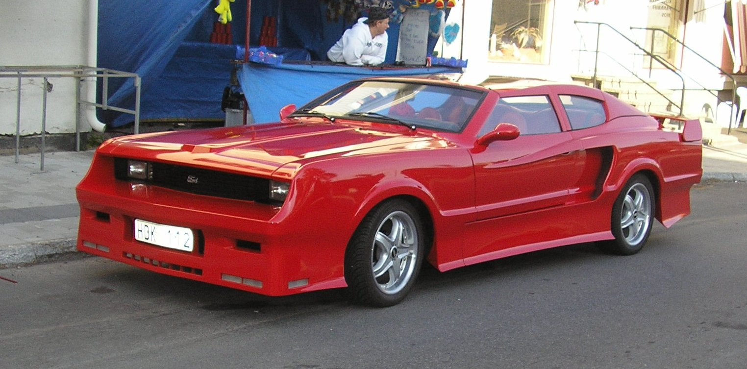 A grey 1974 Ford Taunus 2000 GXL (later customised a bit)